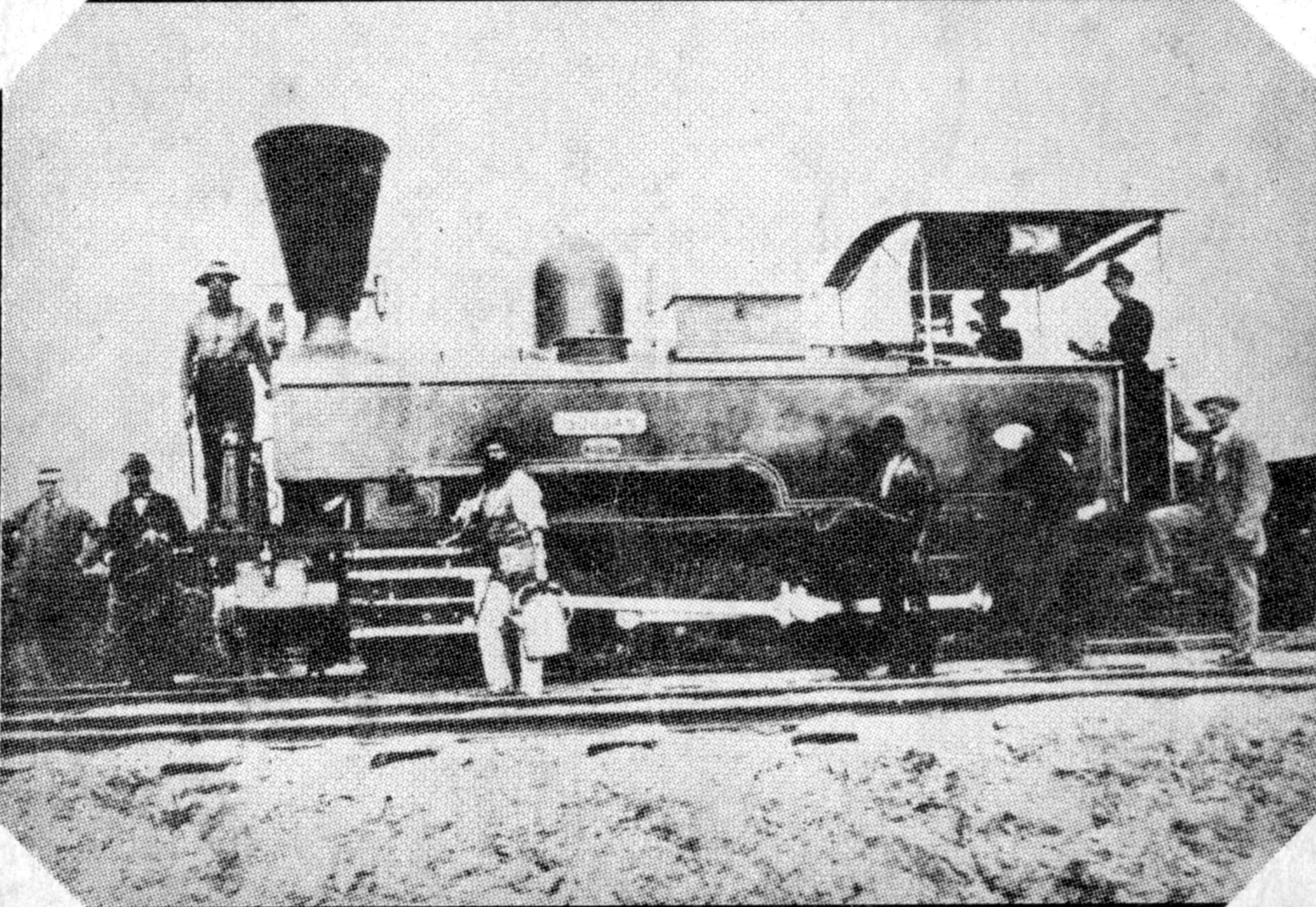 Natal Government Railway 2-6-0T no. 19, ex contractors Wythes & Jackson Ltd. locomotive "Durban"